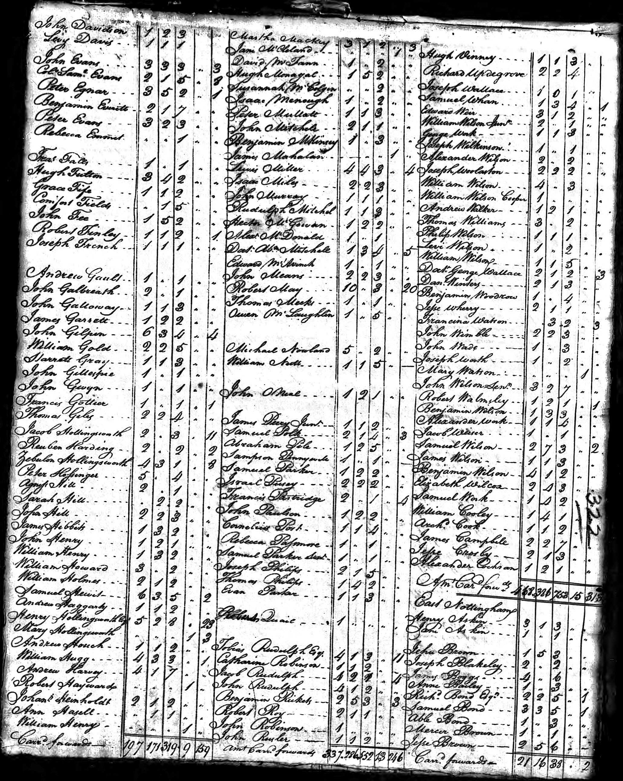 Census - William Cooley Information